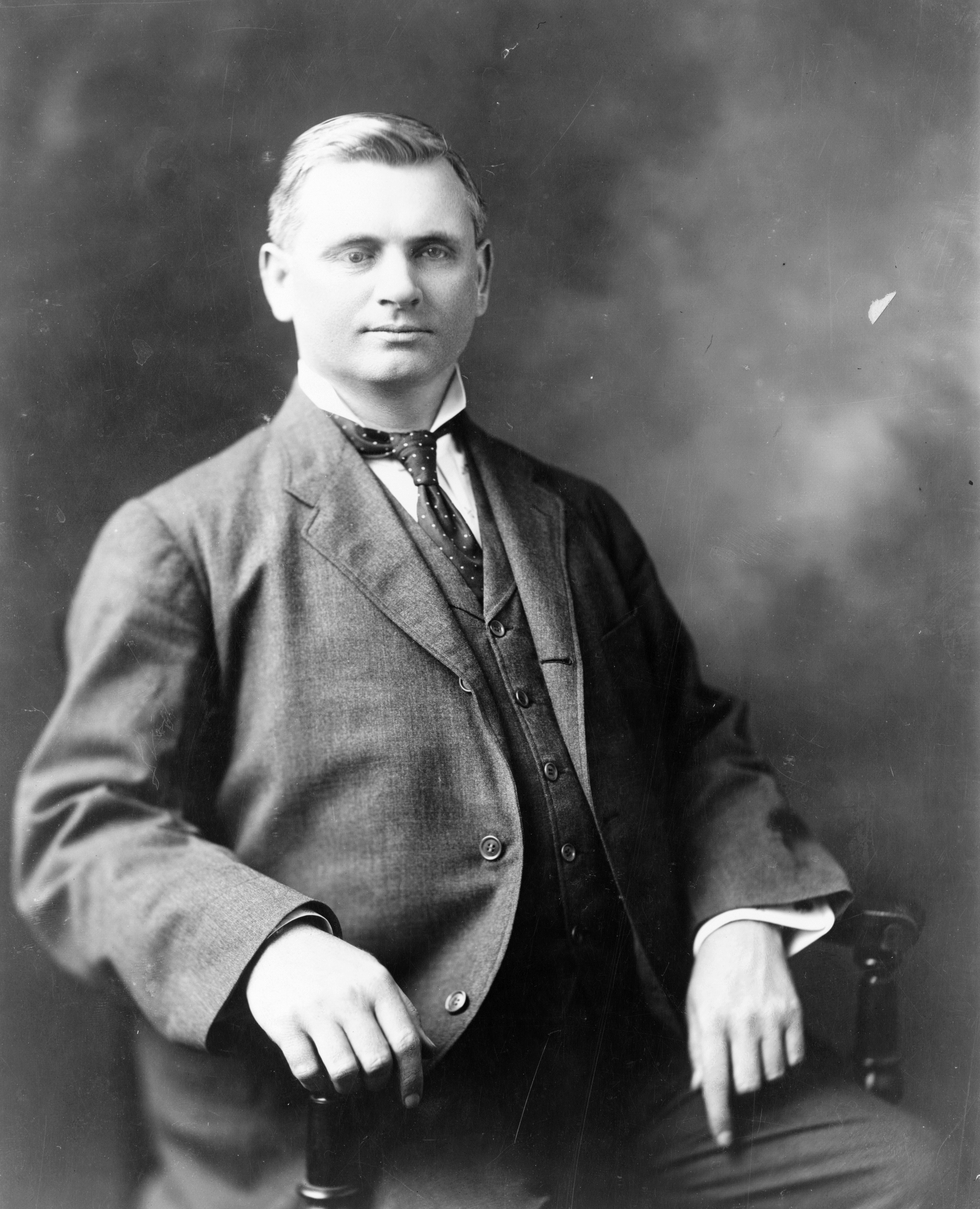 Thomas Gore